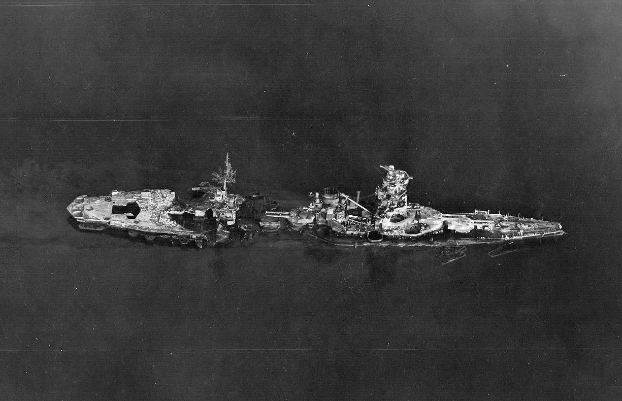 The Japanese battleship Hyūga, pictured after being heavily damaged during air attacks by carrier planes against Kure, Japan.